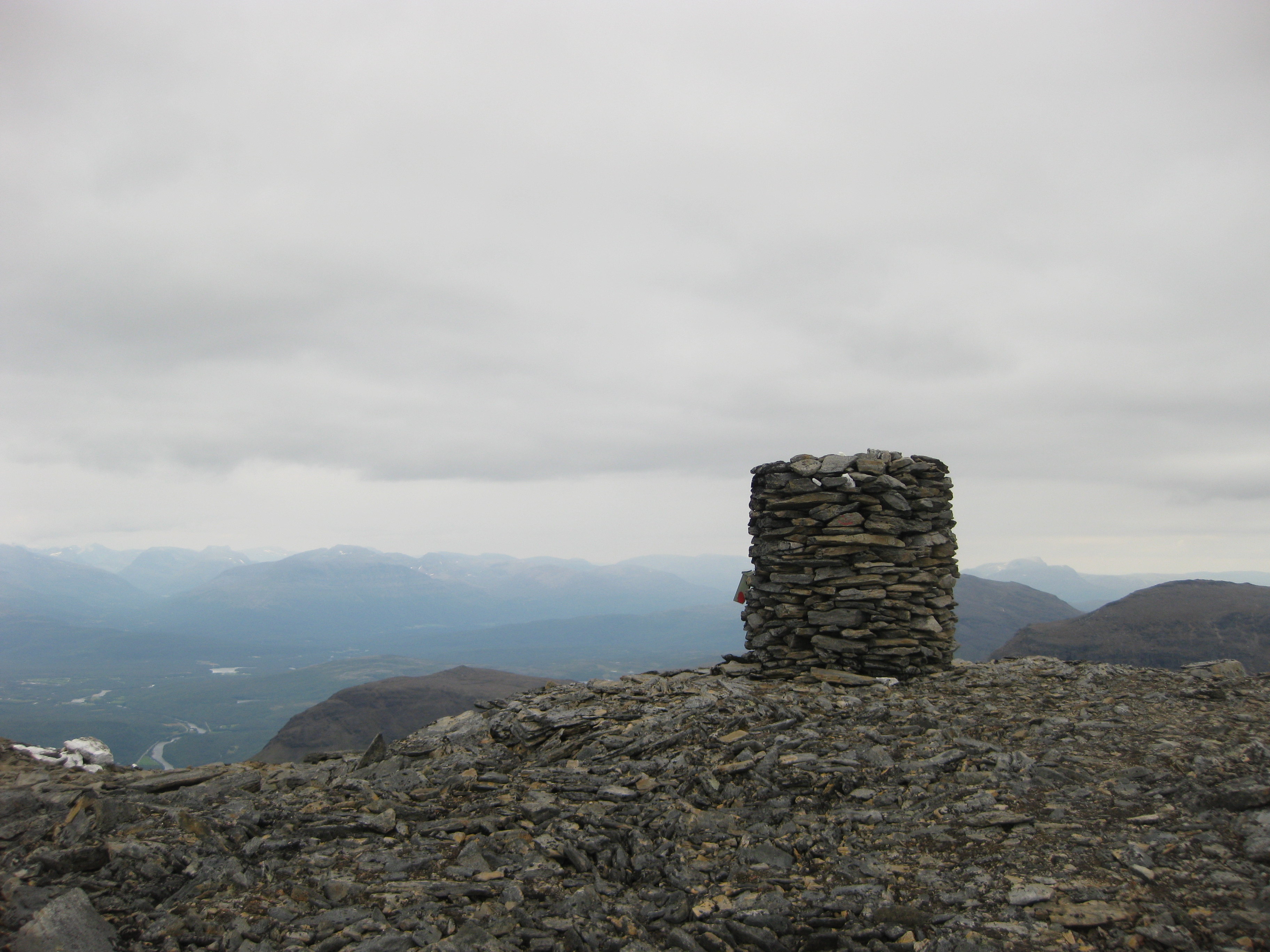 Alappen in Målselv, Troms.